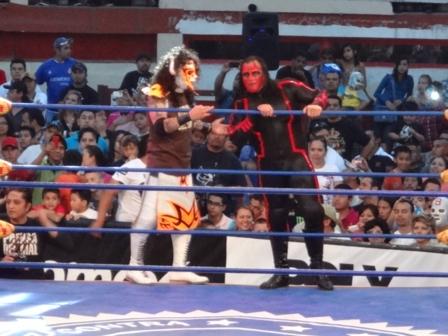 Psicosis (left) and Chessman at Rey de Reyes (2013).